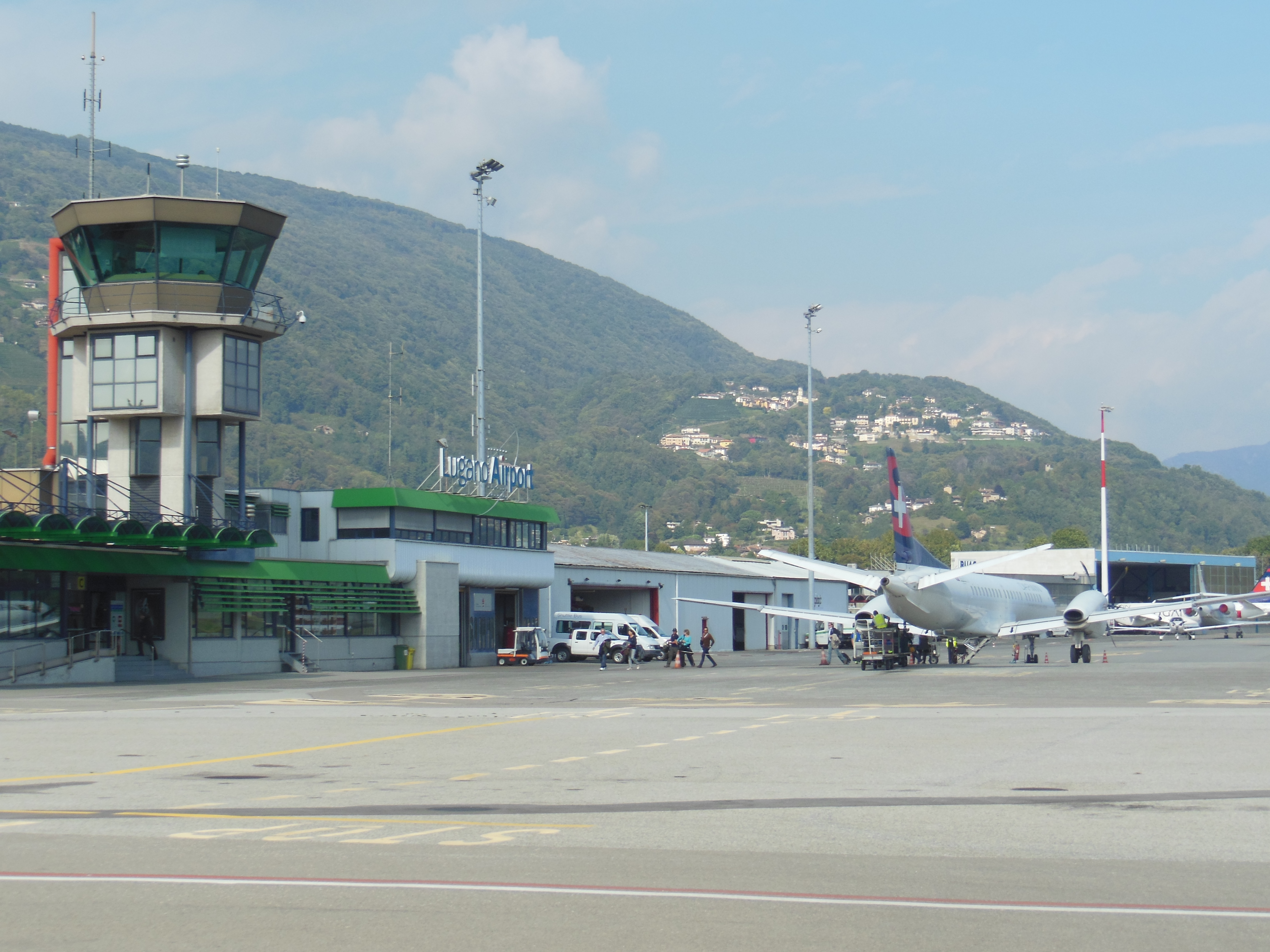 The apron and terminal at Lugano Airport. For more information, see wikipedia article Lugano Airport.